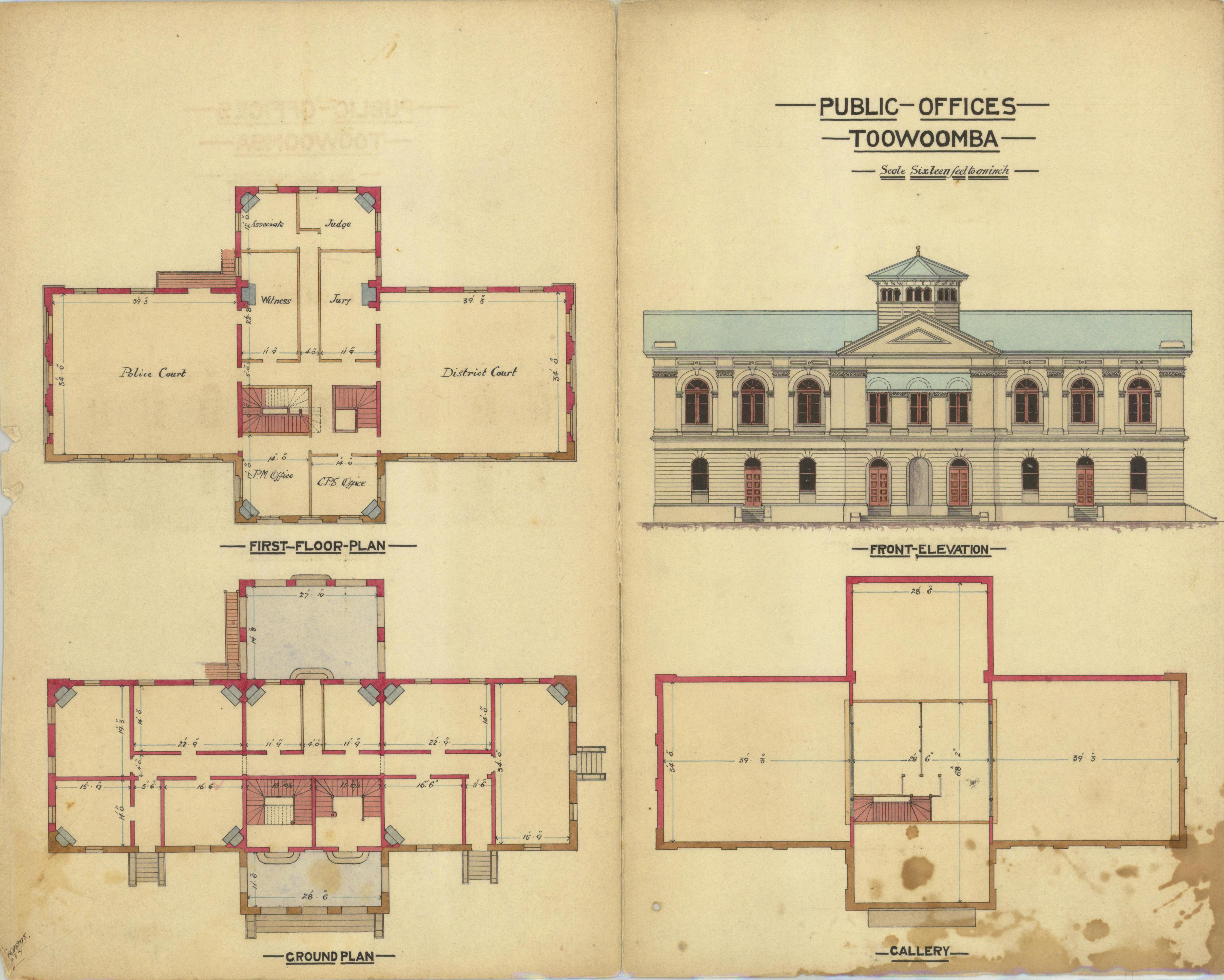 Architectural drawing of the Public Offices (including Court House), Toowoomba, 23 September 1887